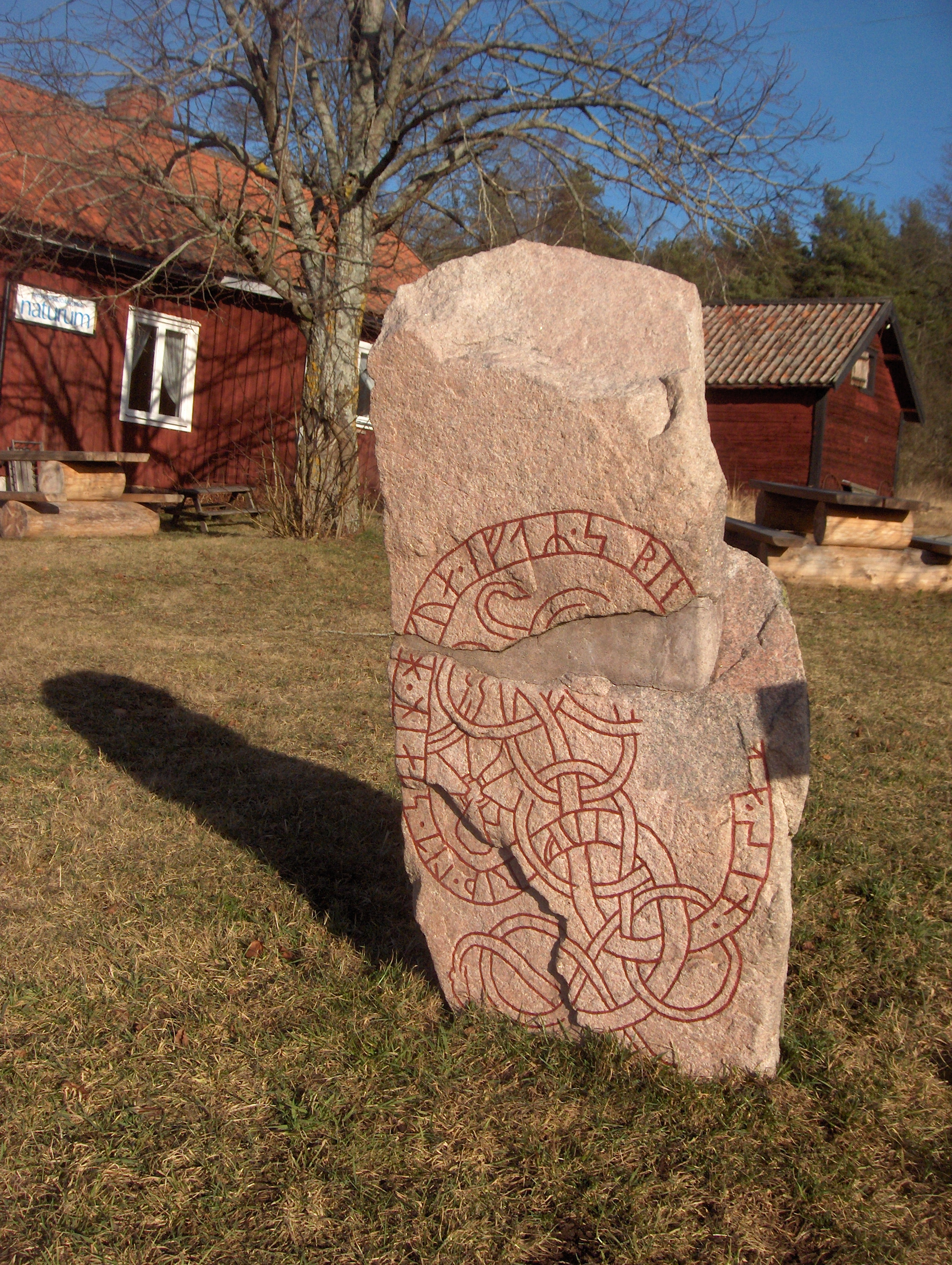 Runestone U 211 at Angarnsjöängen in Stockholm, Sweden. Photographed by me in spring 2008.